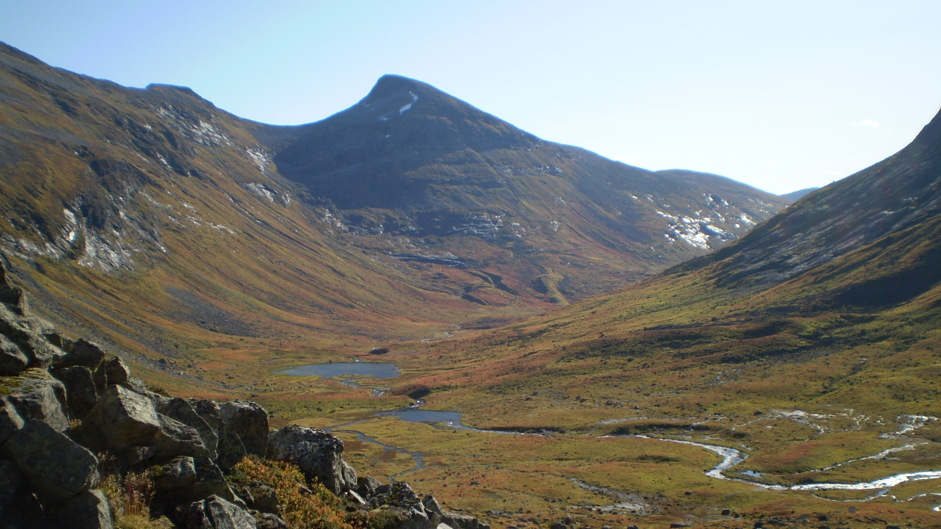 Auskjeret, a 1335m high mountain in Stordal, Møre og Romsdal, Norway. The river is Stavåna